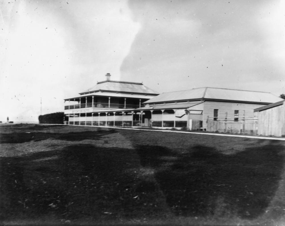 Brighton Hotel at Cleveland, ca. 1903. Brighton Hotel is the two storey building at the end of the row of buildings.